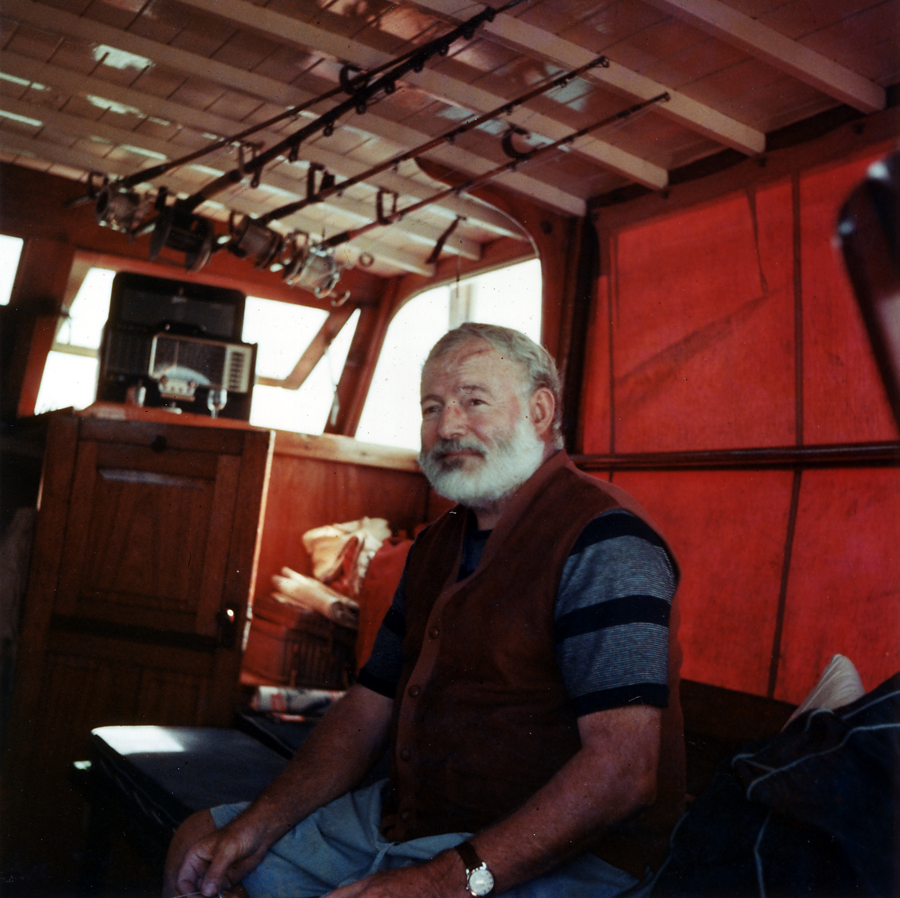 American Author Ernest Hemingway aboard his Yacht around 1950